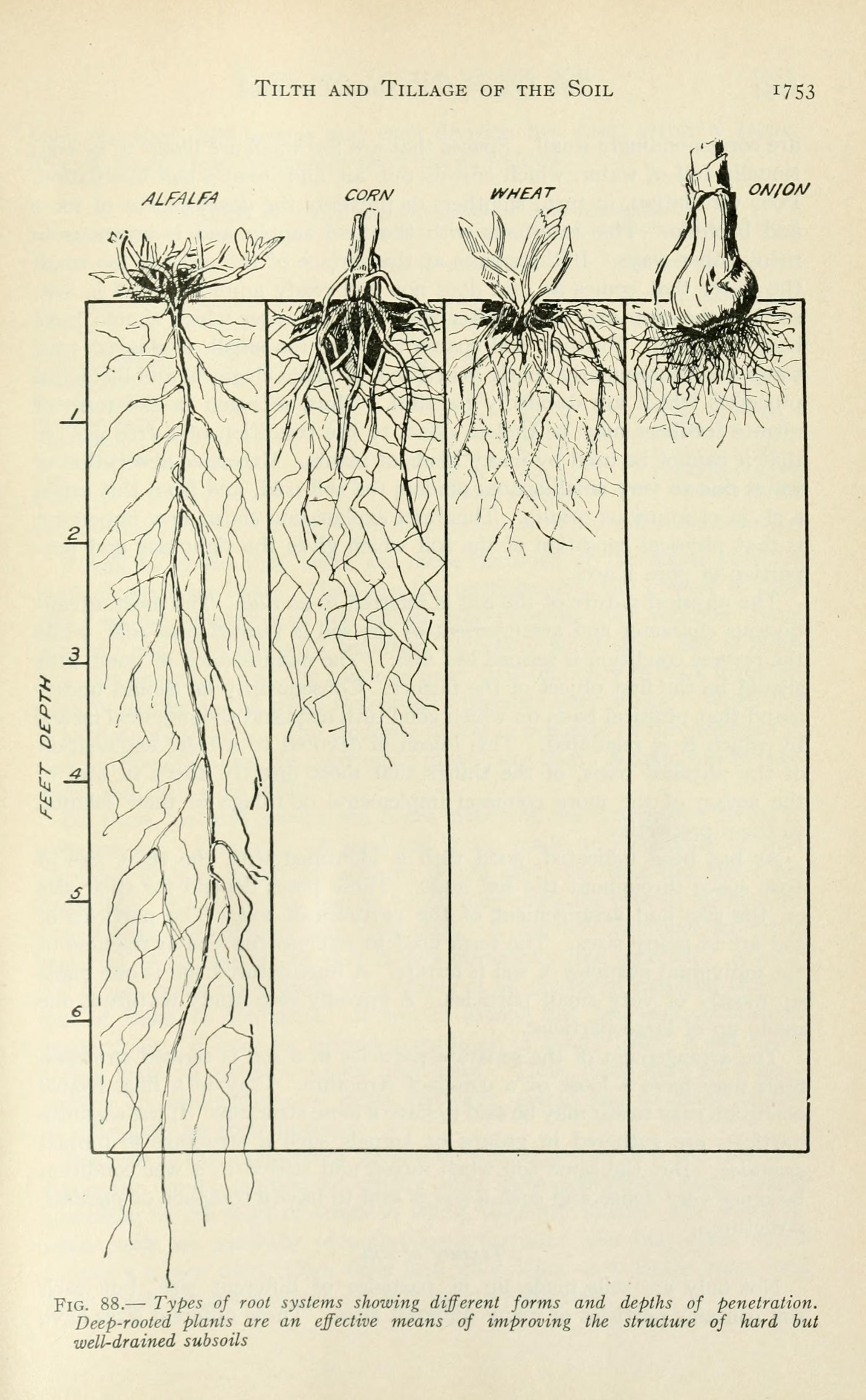 Title: Annual report of the New York State College of Agriculture at Cornell University and the Agricultural Experiment Station Year: (Albany, N.Y. : 1911-1971. (Albany, N.Y. : (1910s) Authors: New York State College of Agriculture; Cornell University. Agricultural Experiment Station Subjects: New York State College of Agriculture; Cornell University. Agricultural Experiment Station; Agriculture -- New York (State) Publisher: [Ithaca, N. Y. ?] Text Appearing Before Image: Tilth and Tillage of the Soil 1753 OHIOM Text Appearing After Image: Fig. 88.— Types of root systems showing different forms and depths of penetration. Deep-rooted plants are an effective means of improving the structure of hard but well-drained subsoils